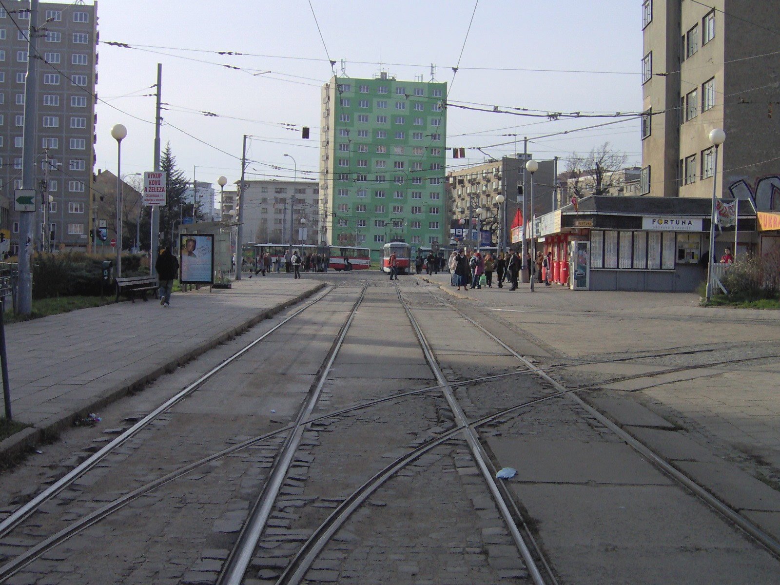 Tram track in Mendel square Česky: Tramvajová trať na Mendlově náměstí